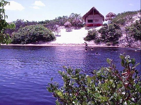 River Arm Between the village and the princess's beach.